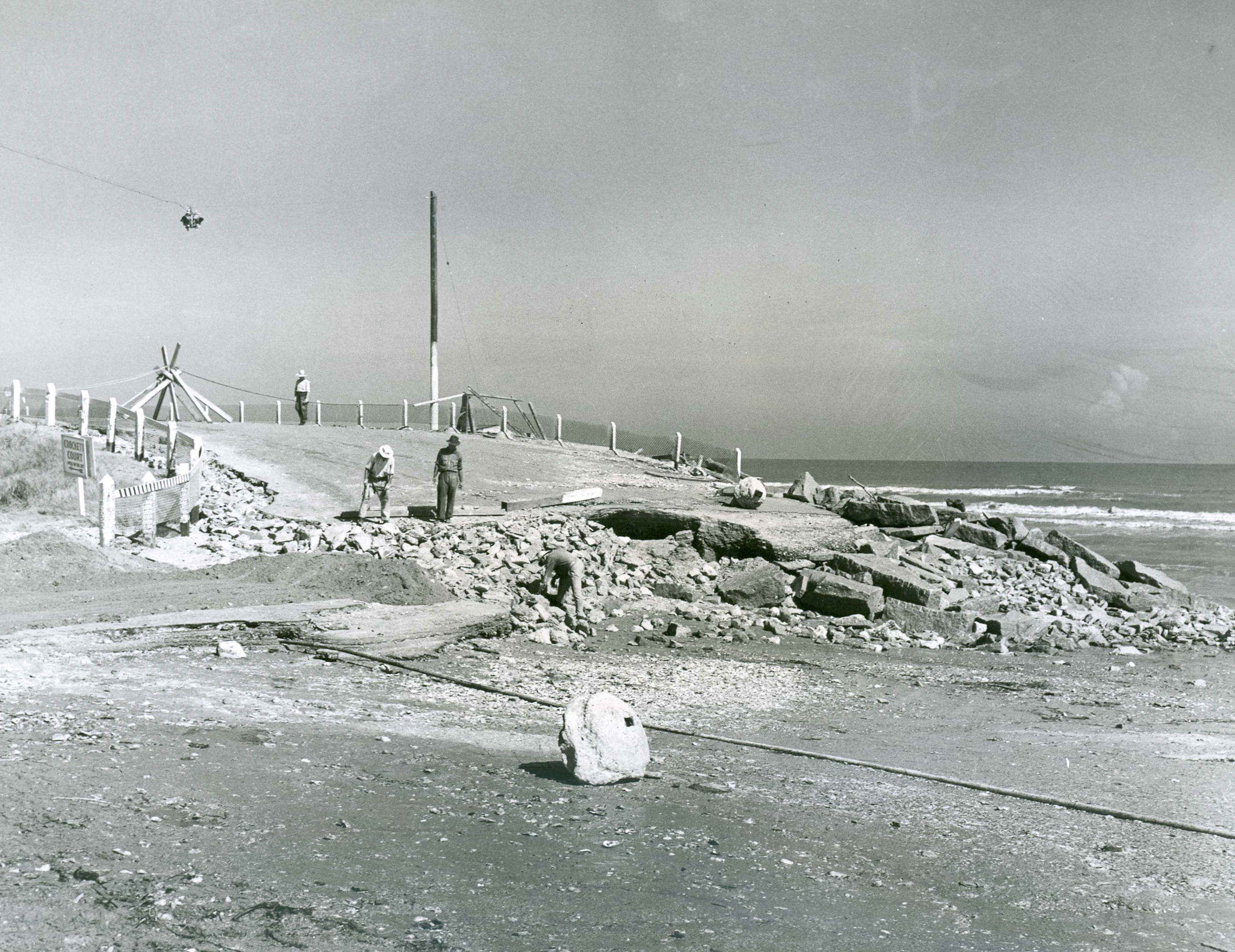 Men from the Works Progress Administration doing emergency repair to the road at the end of the Galveston, Texas Seawall because of damage from the 1941 Texas hurricane on the night of September 23, 1941.